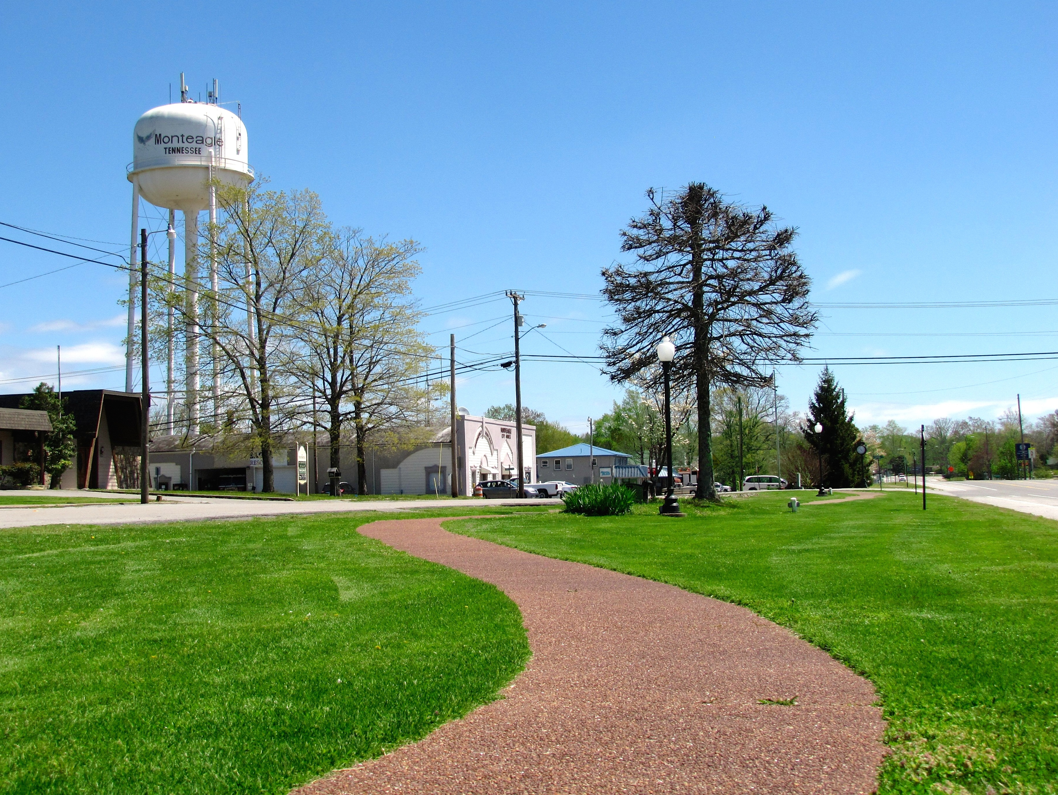 Water tower in Monteagle, Tennessee, United States, viewed from the greenway adjacent to US-41.